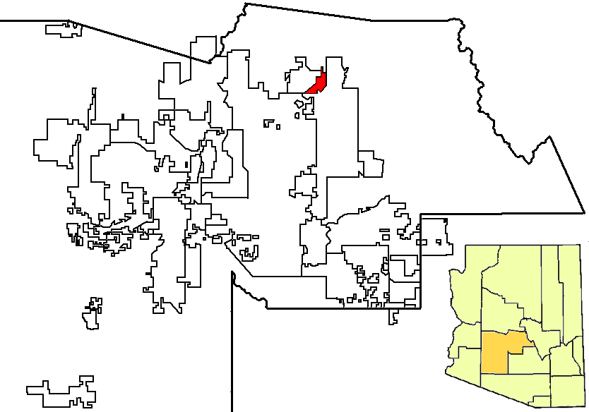 Map of approximate corporate boundary of Carefree, Arizona, within Maricopa County